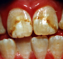 Dental fluorosis caused exclusively from excessive fluoride